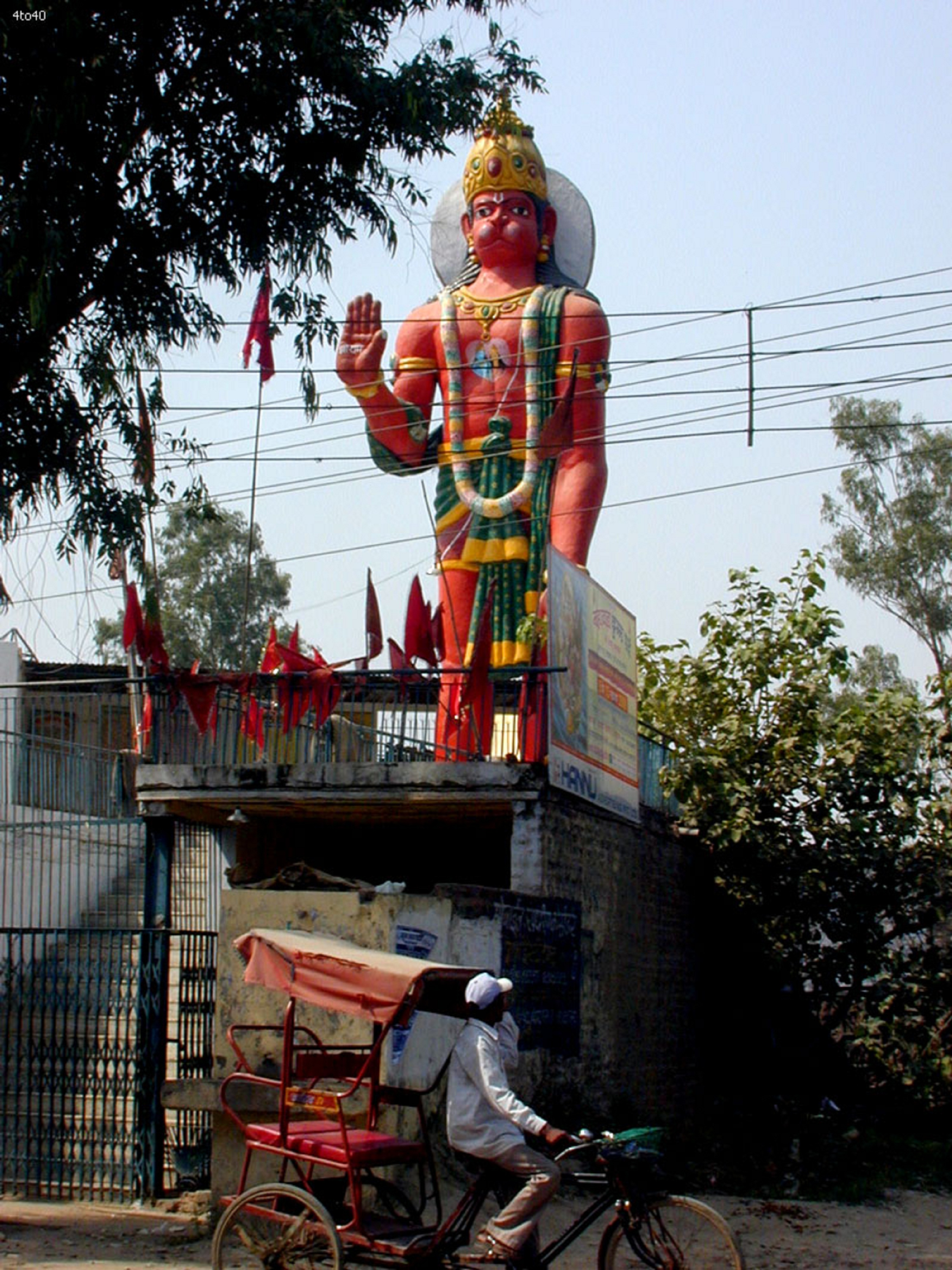 The Famous HanumanTample Of Shiv Ram Park